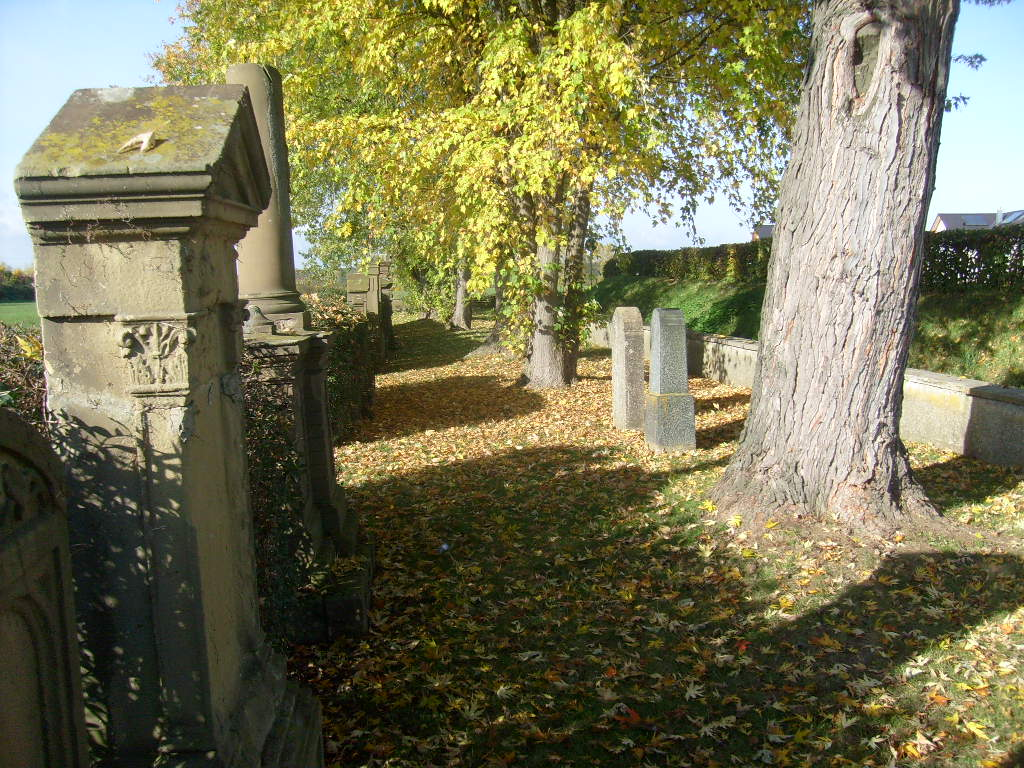 Stones at the Kochendorf Jewish cemetery